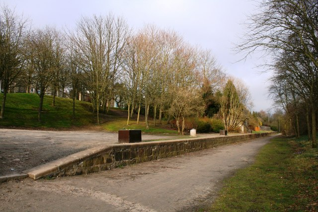 Culter Platform The platform of the long disused, and disappeared, Culter Station on the Deeside Line.